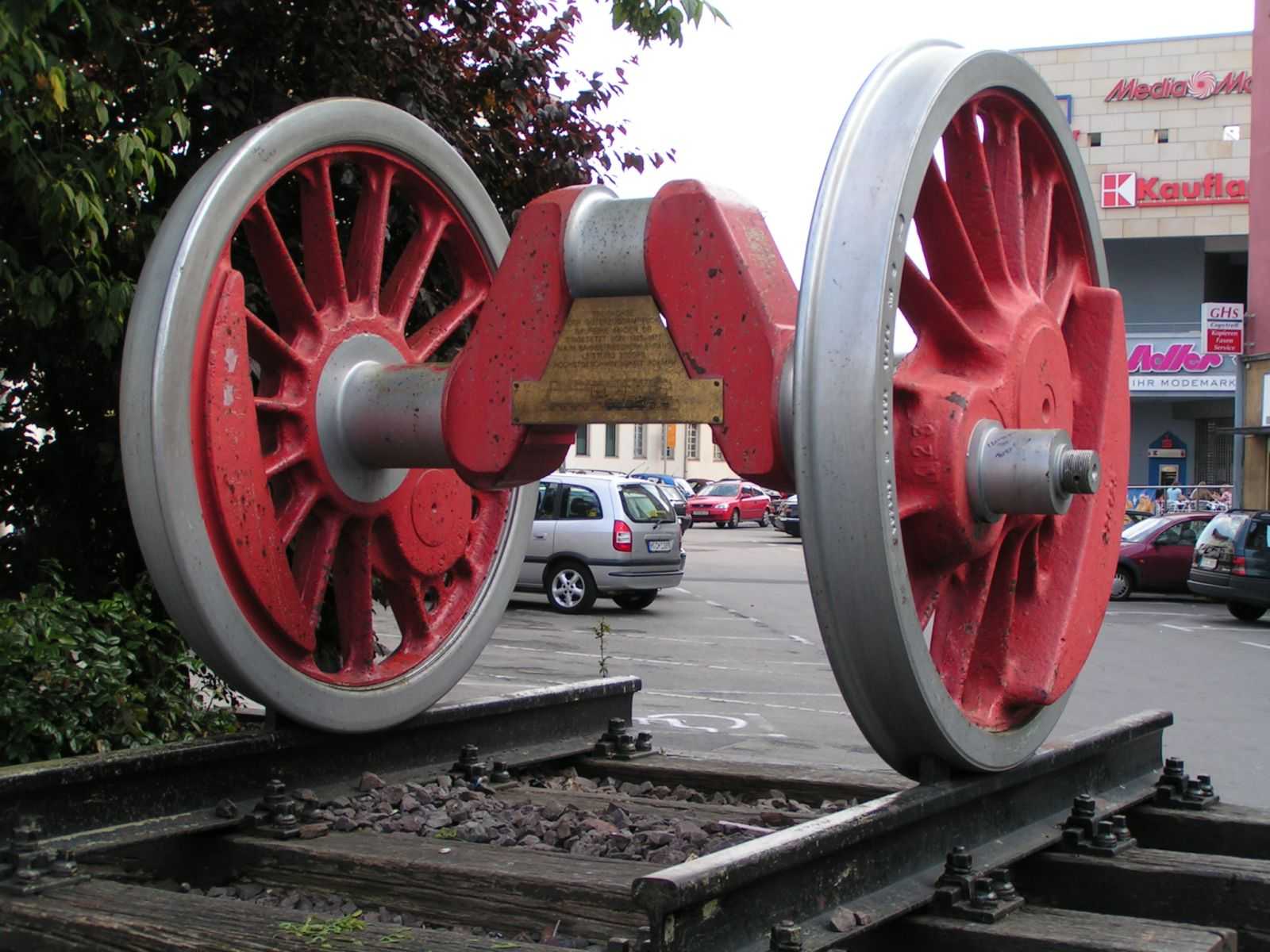 Driving axle of a Class 44 at the trainstation Trier, Germany